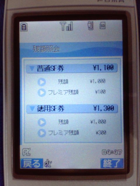 残高を調節して再度撮影。残高ゼロの状態から1000円ずつチャージした状態。 モバイルNicoPaの残高照会画面をFOMA N903iにて表示 Charged only 1000jpy into each balance. Mobile NicoPa - balance inquiry display on FOMA N903i Photo by N9821